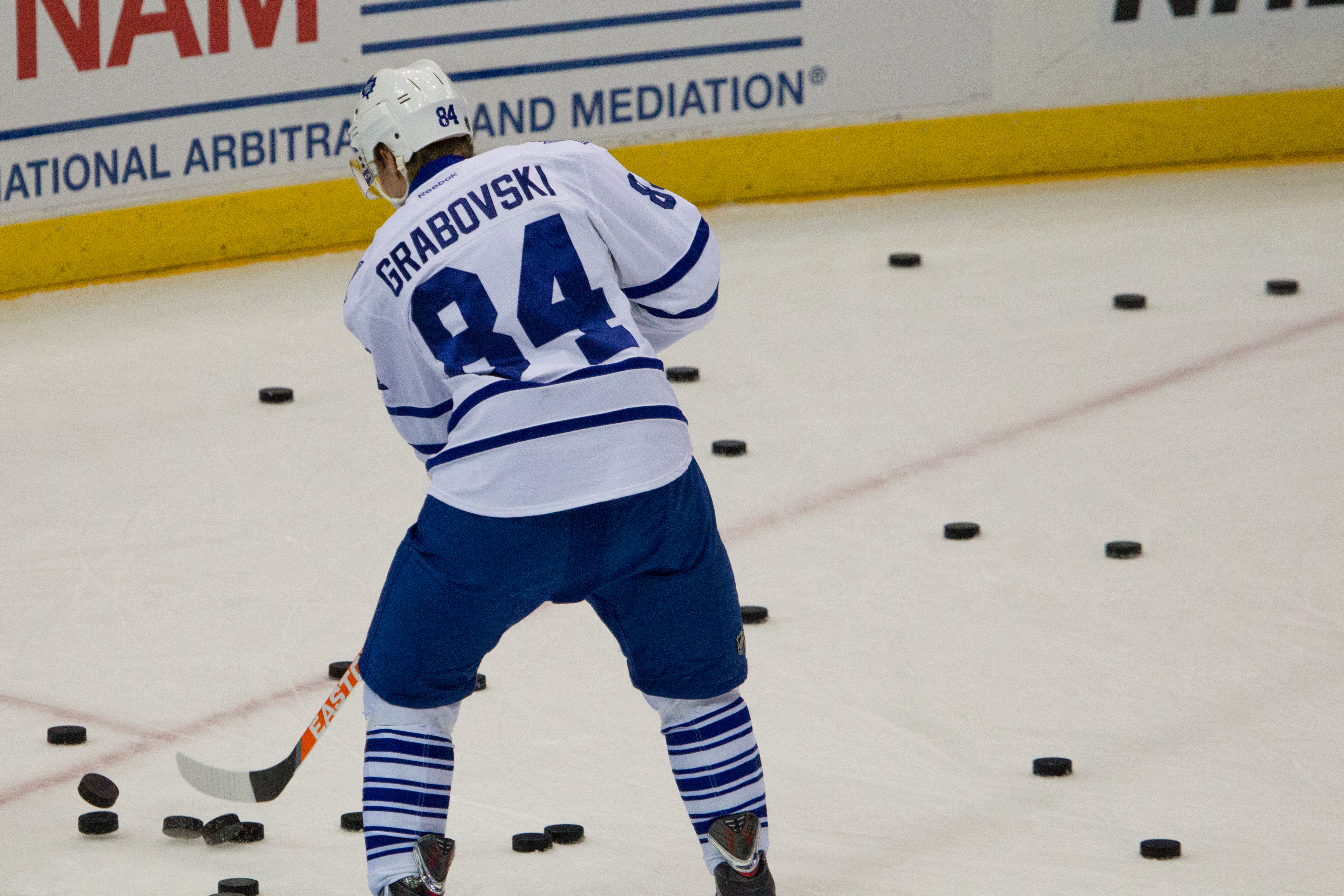 84 Mikhail Grabovski